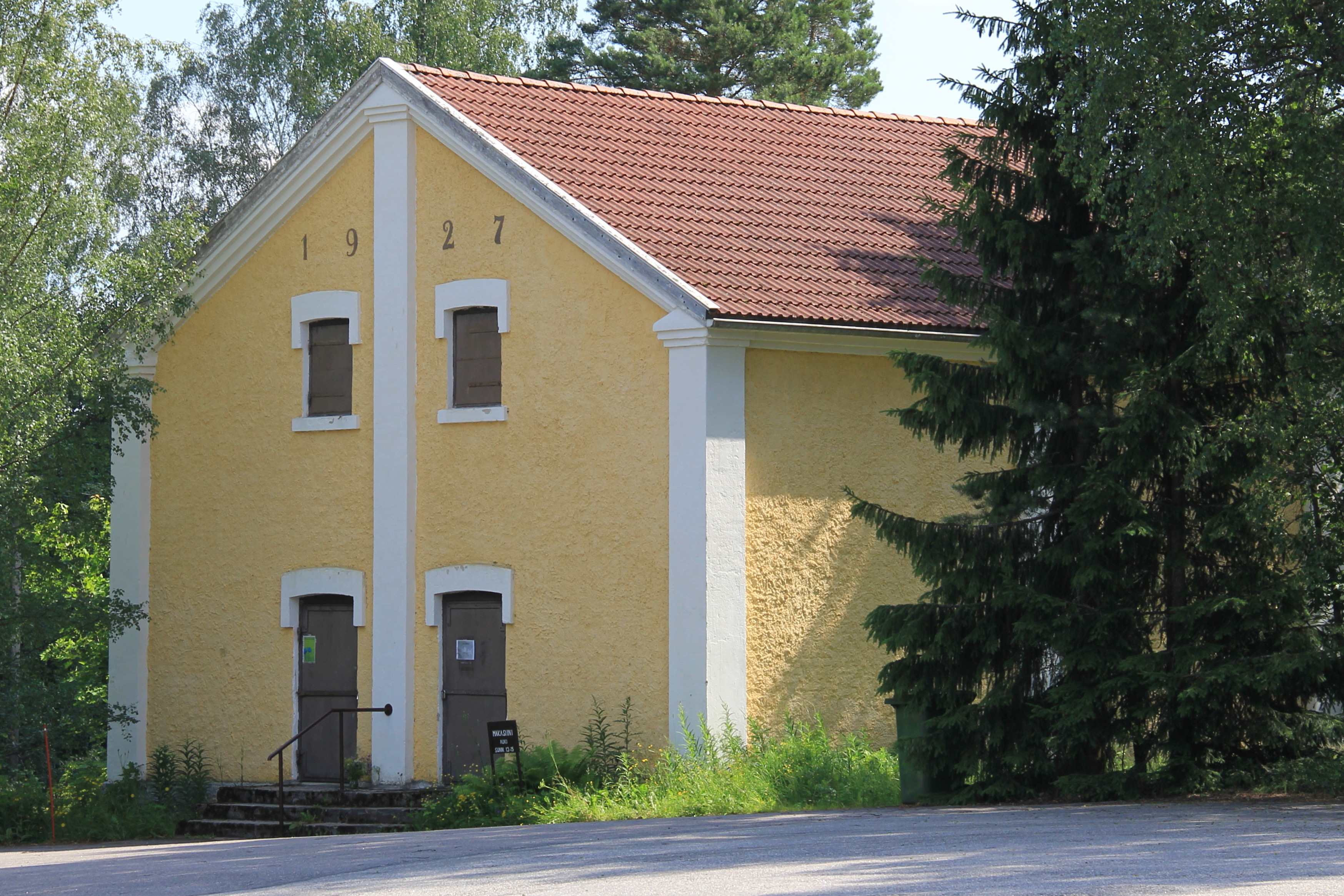 Kuusjoki parish granary, Kuusjoki, Salo, Finland. - Completed in 1927.